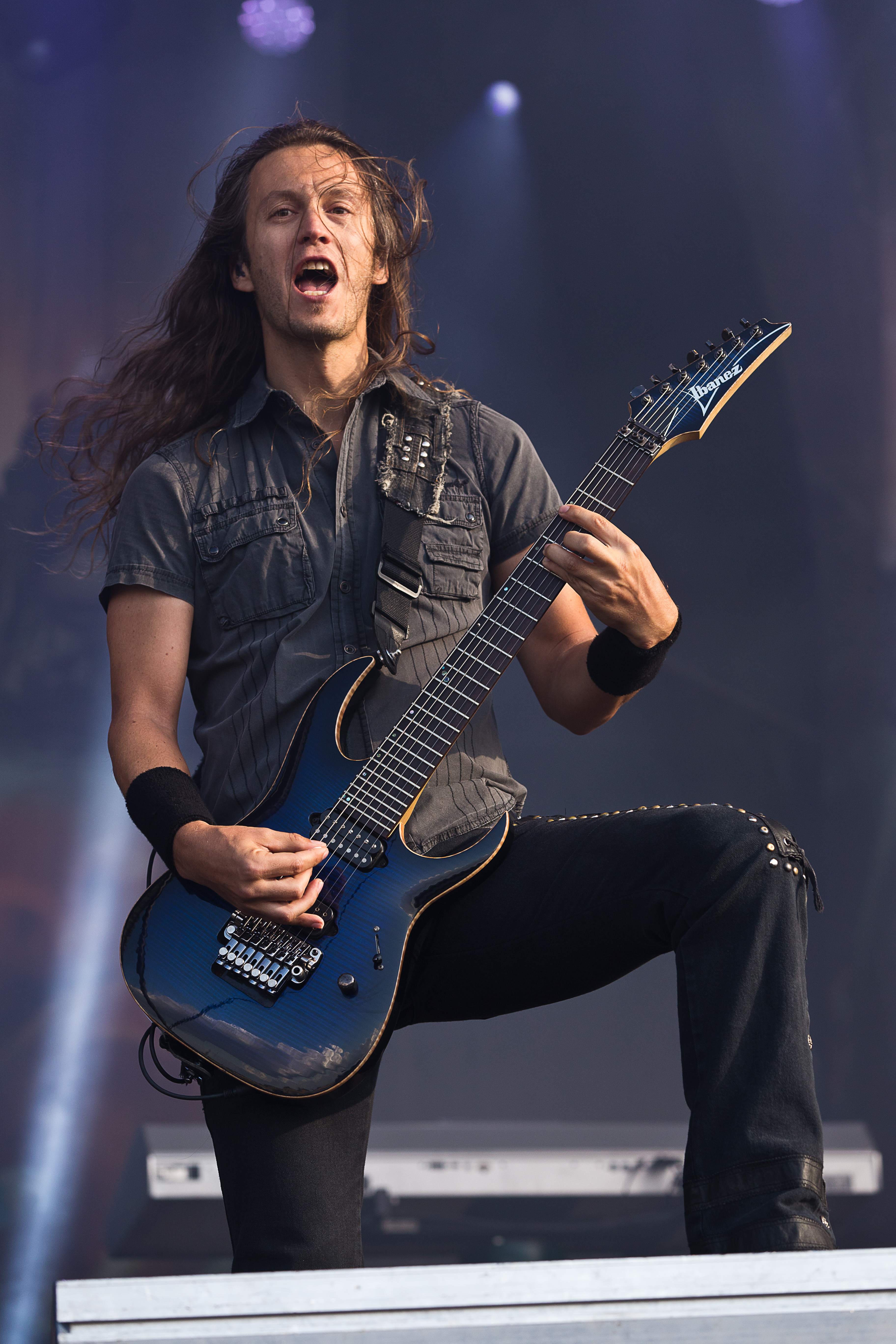 The Dutch symphonic metal band Epica at the Rockharz Open Air 2015 in Ballenstedt/Germany.